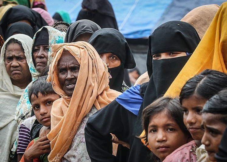 Rohingya displaced Muslims